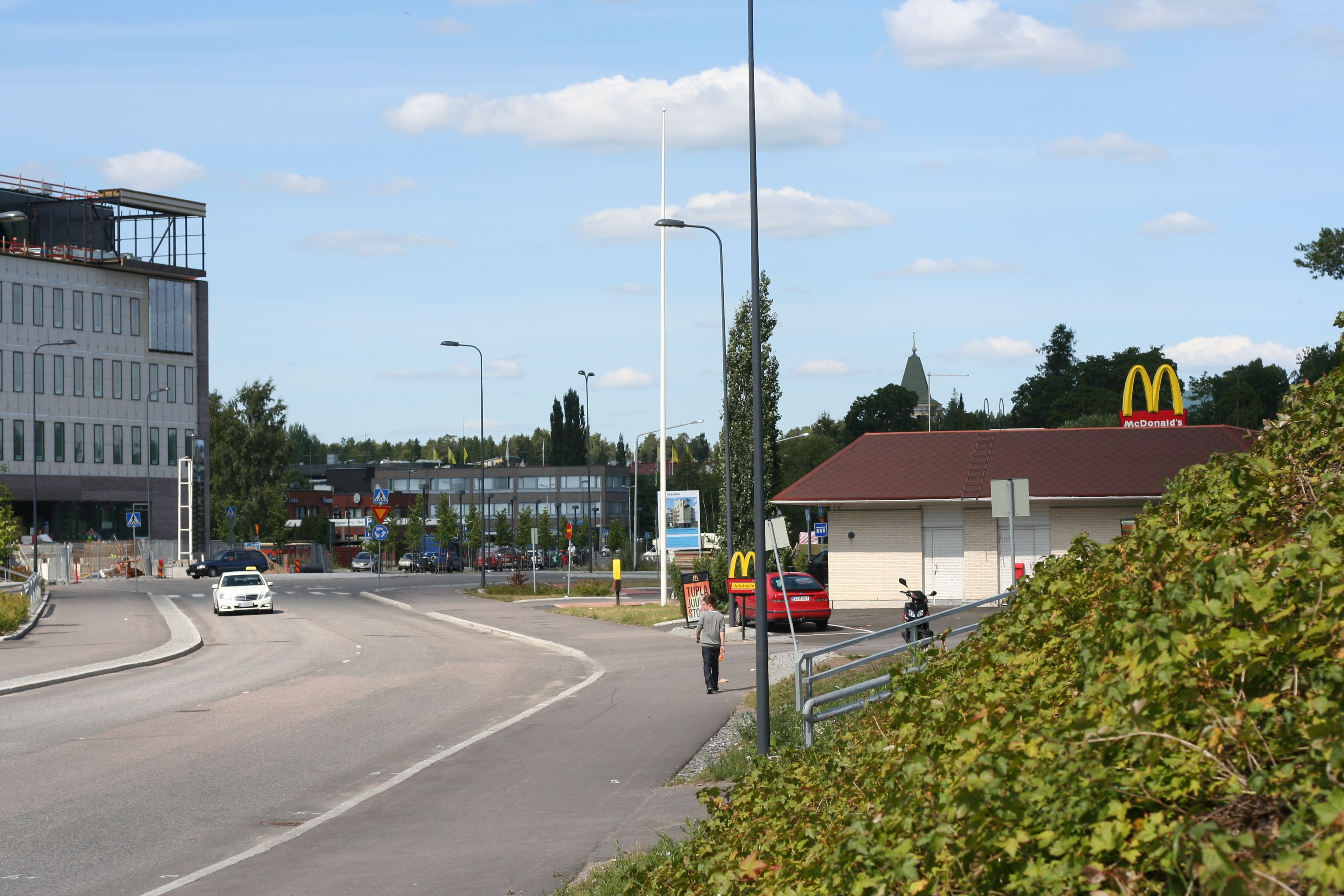 New and old buildings in Kirkkonummi center. Church tower behing Mac Donalds.